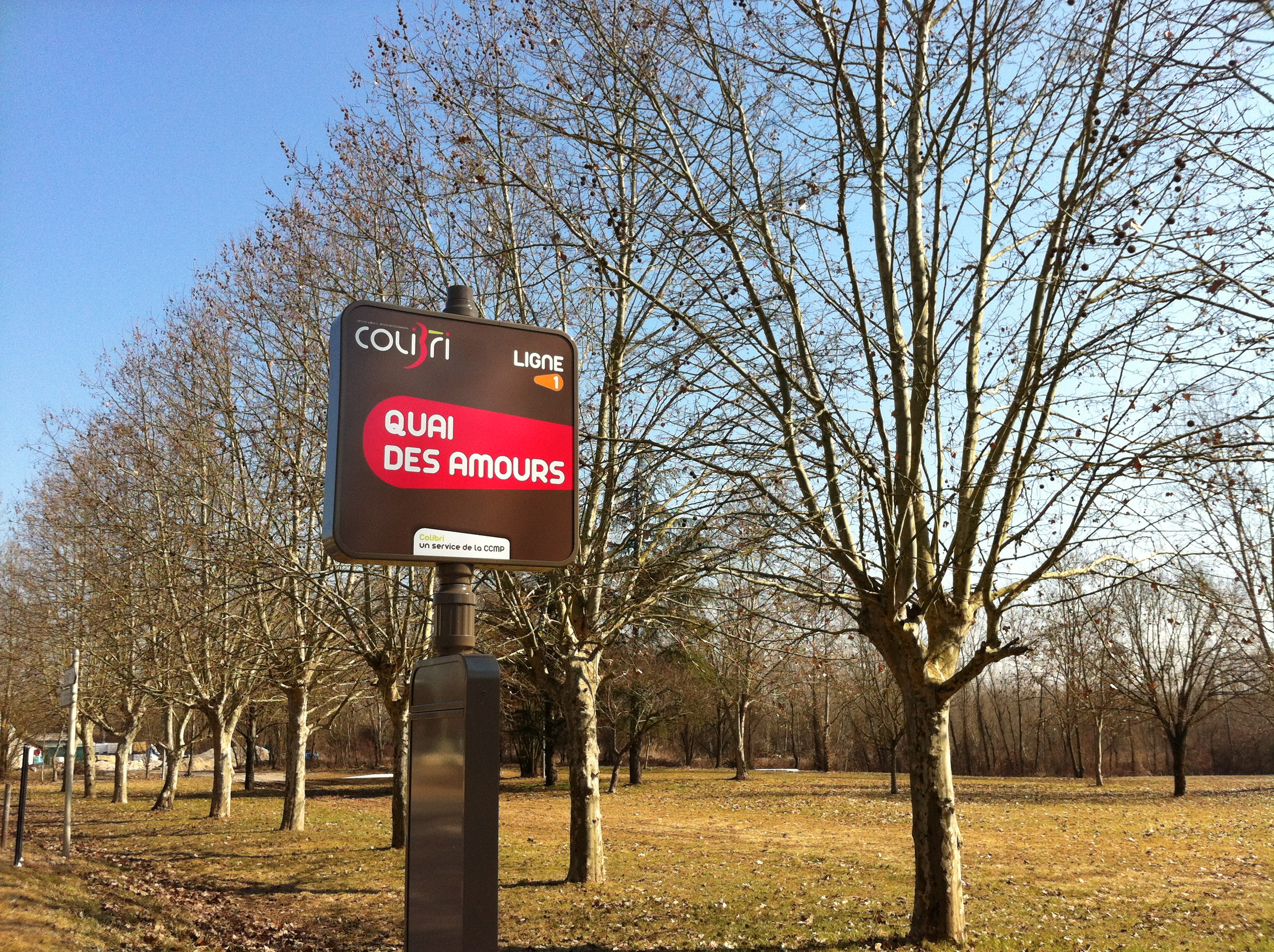 Quai des amours (Colibri bus stop).